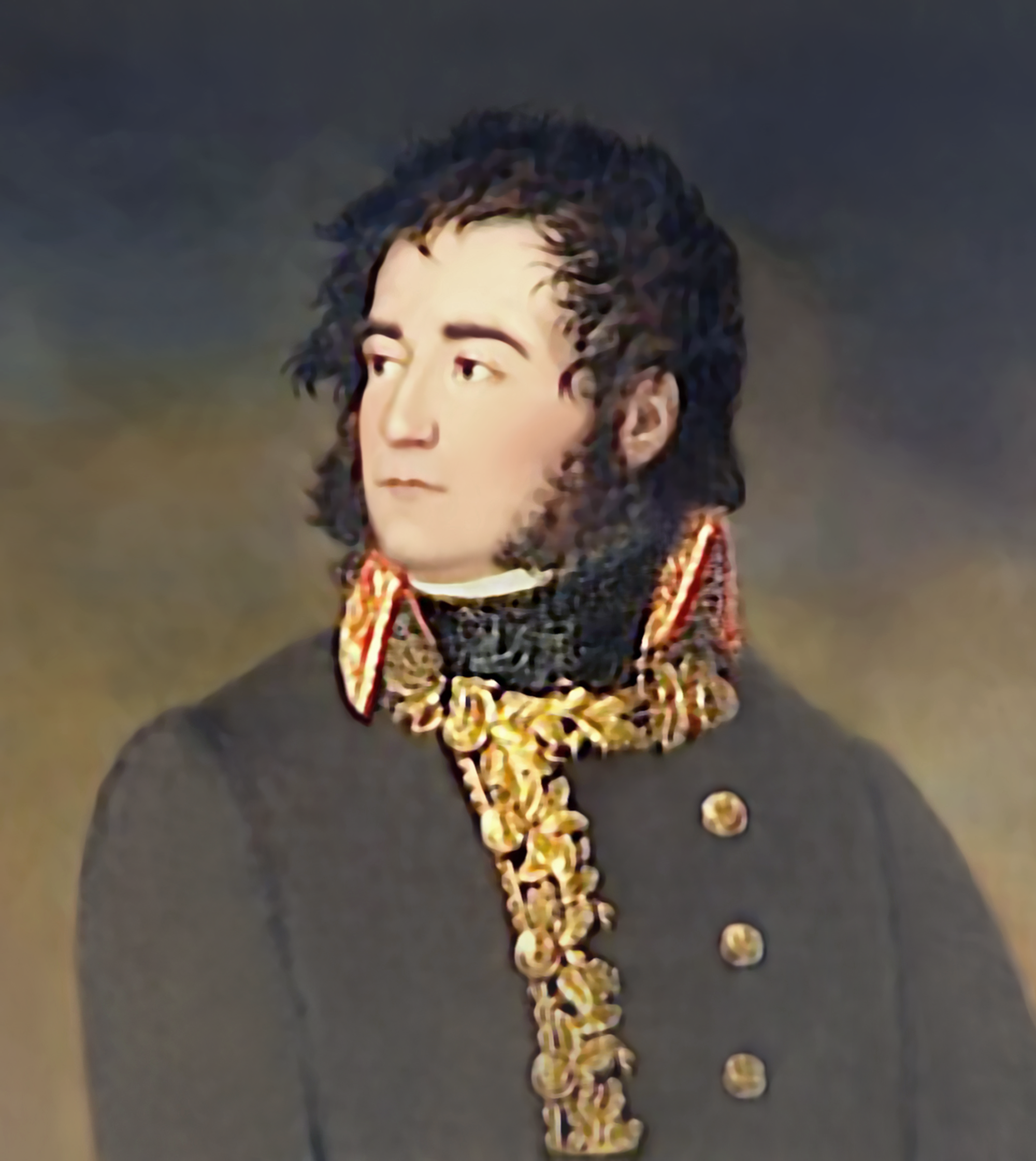 General Jean-Antoine Marbot (1754-1800)